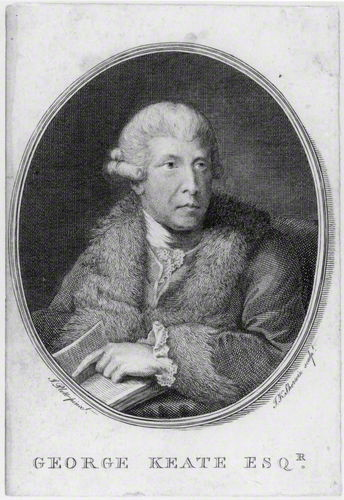 Portrait of George Keate (1729–1797), English poet and writer.